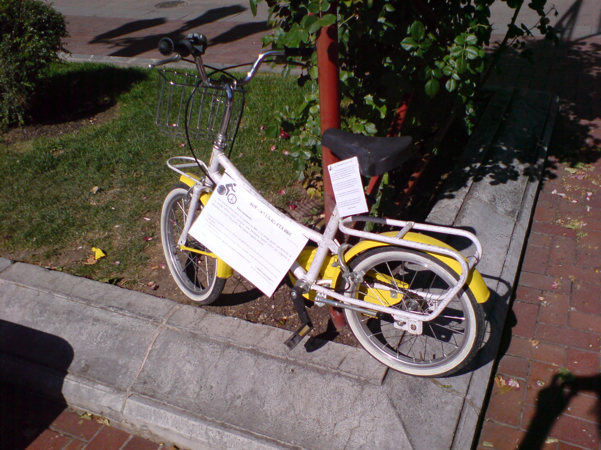 Bike-Crossing free Bike in Spain